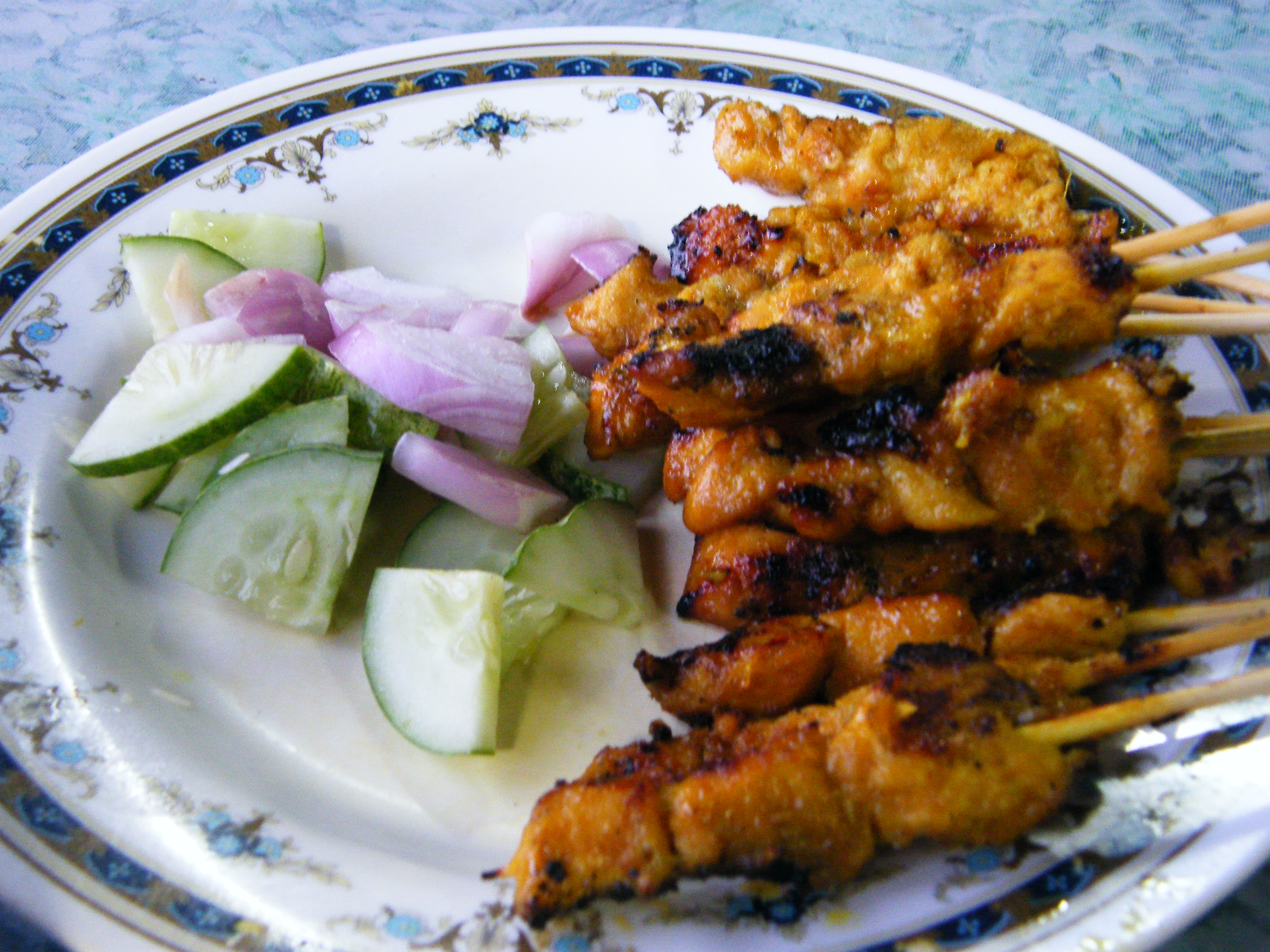 Satay Senibong--taken by author himself.